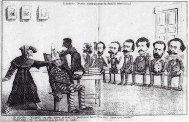 Spanish historian Patricio Ibarra Cifuentes writes: '"El Maestro ciruela [literally The Plum Master] giving an international law class" is the title of this cartoon published by El Padre Cobos on October 13, 1881. Regarding the open intervention of the United States in favor of Peru in the negotiations to end the War of the Pacific, personified in his representative in Peru. Stephen Augustus Hurlbut, El Padre Cobos and el Negro punish Uncle Sam in a class of international law: the first pulls an ear while his partner places a dunce cap which reads "for intruding". Uncle Sam, identified as named as Mr. Hurlbut, tells El Padre Cobos that Peru has already lost its honor so nothing else remains to be lost, to which Uncle Sam replies that he still has to disappear completely. Students include, among others, Diego Barros Arana, Miguel Luis Amunátegui, José Manuel Balmaceda, José Victorino Lastarria and Máximo R. Lira who make astonished gestures. The drawing is an open criticism of the participation of the United States in the liquidation of the war and the lenity of Chilean politicians to defend their interests, according to the newspaper's point of view. Here is public opinion, embodied by Father Cobos and Negro, who face the adversaries of the Fatherland.'